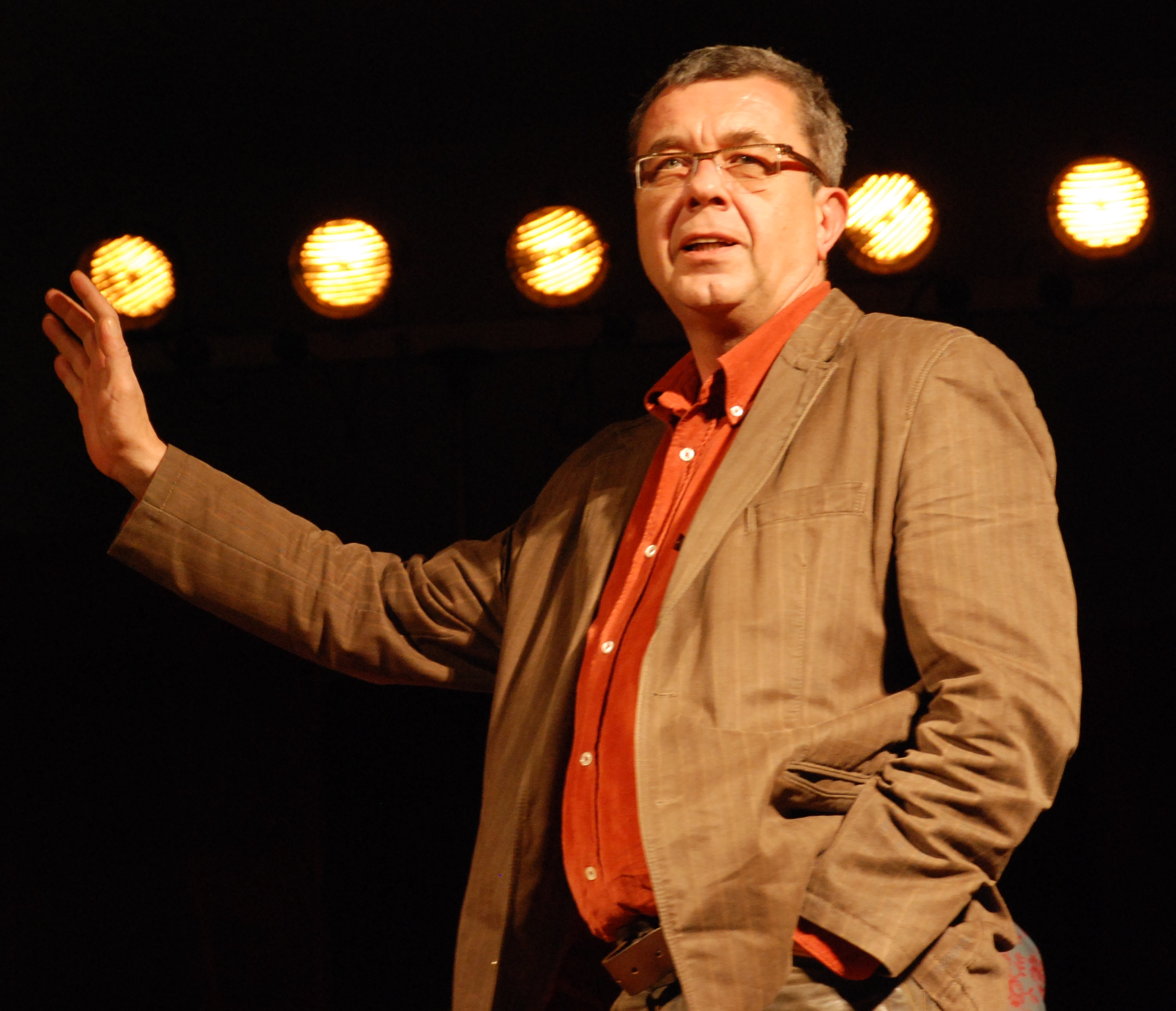 Grzegorz Miecugow, a Polish television journalist, co-manager of a famous Polish satirist programme Szkło kontaktowe guest starring in a soap opera parody "Spadkobiercy" (